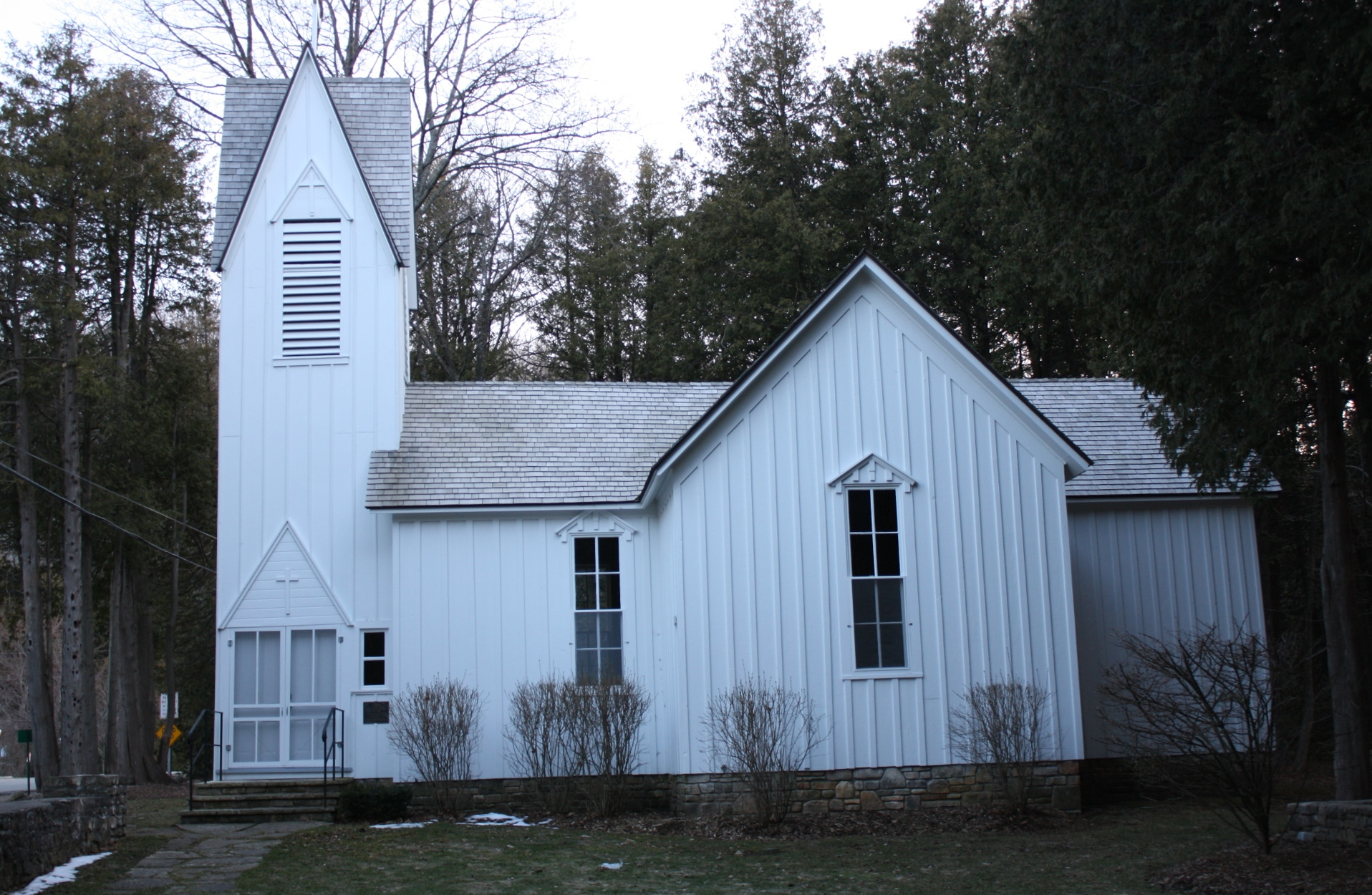 The Church of the Atonement (Fish Creek, Wisconsin) in Door County, Wisconsin, listed on the National Register of Historic Places.